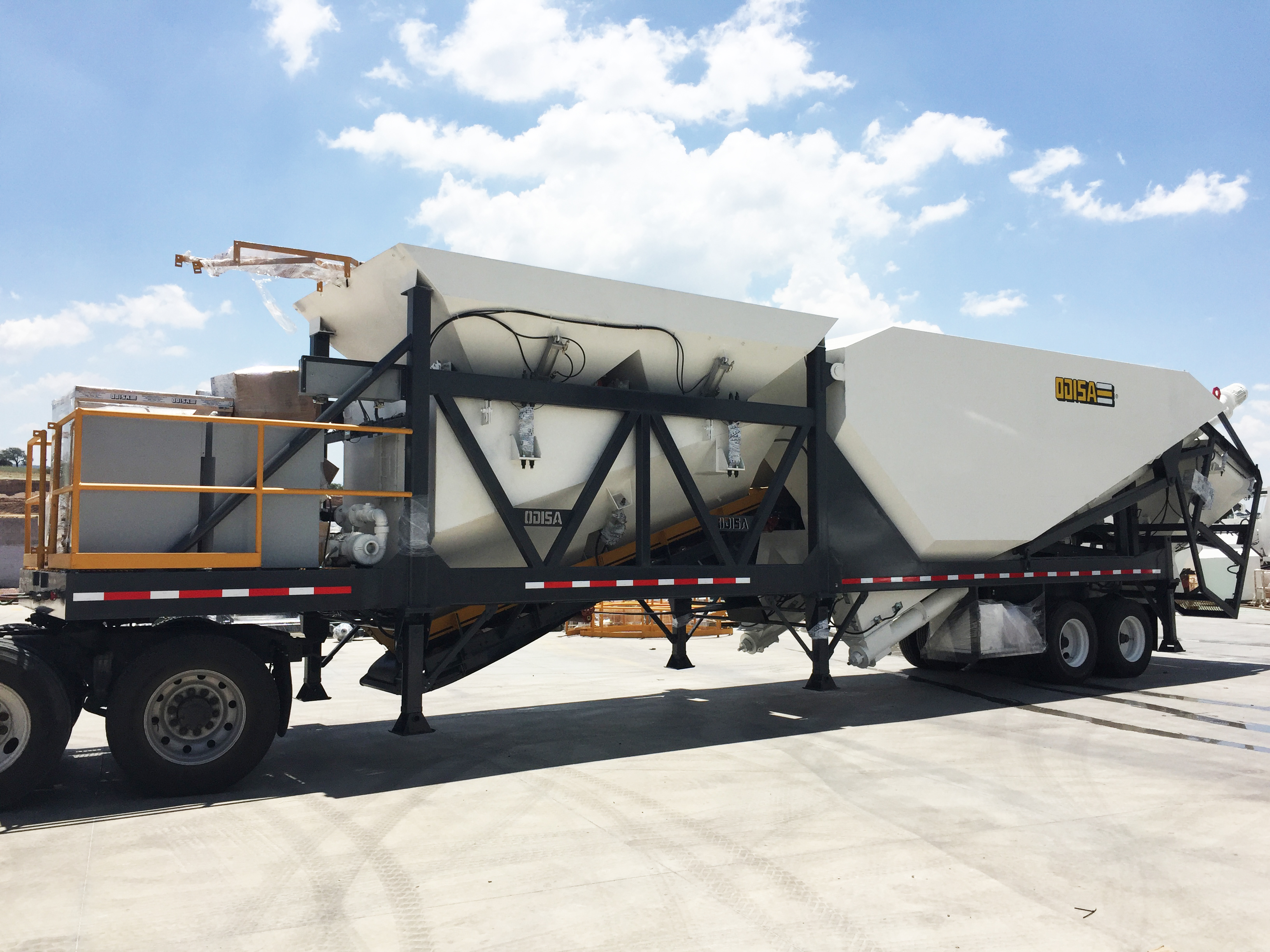 Mobile concrete plant with integrated cement silo. Product of Odisa company of Hidalgo, Mexico.